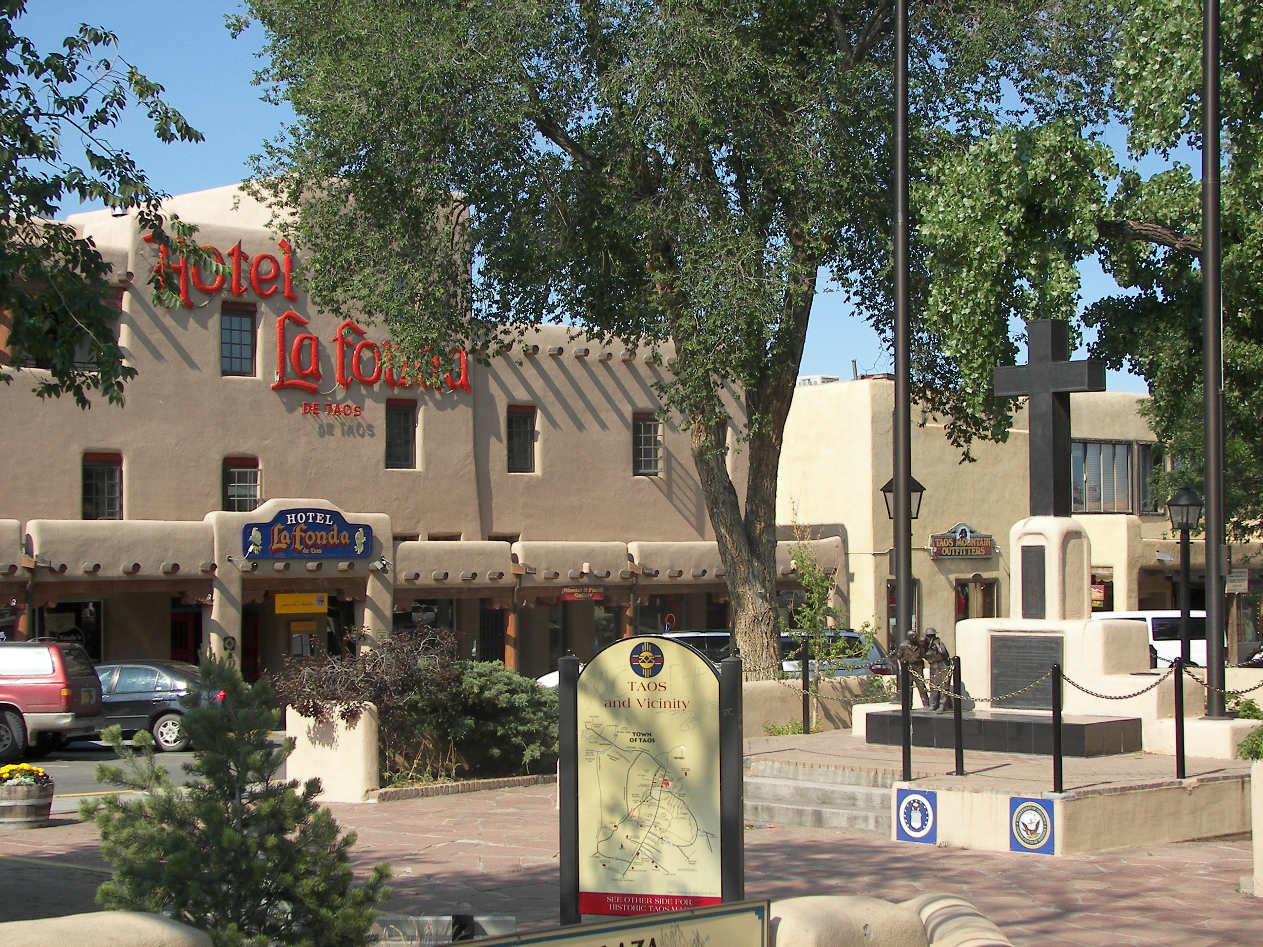 Taos Plaza and Hotel La Fonda taken in June 2007